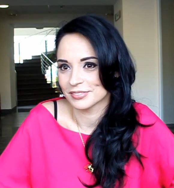 Romanian TV host Andreea Marin Bănică during a filmed interview.